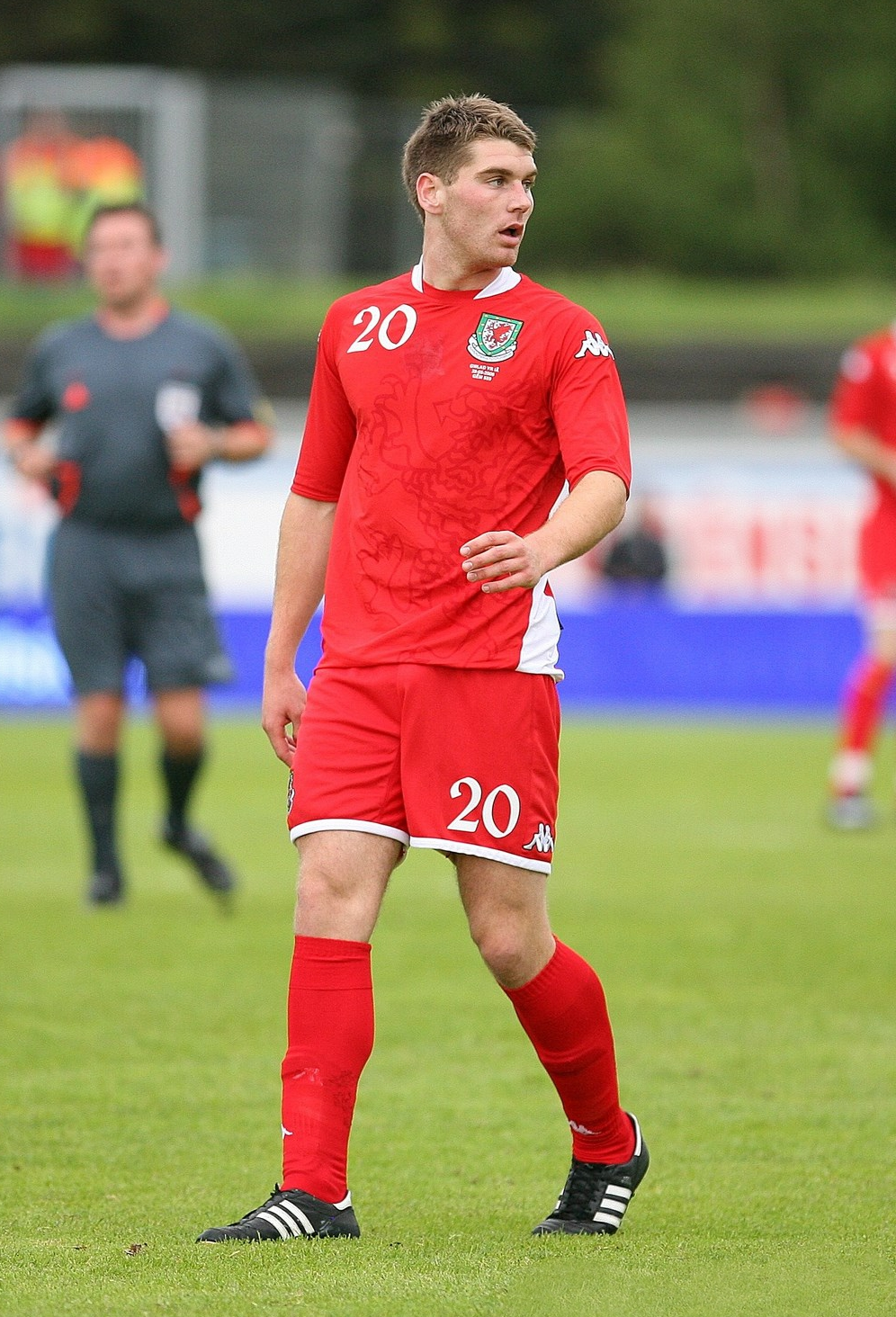 Welsh football player Sam Vokes during match against Iceland.